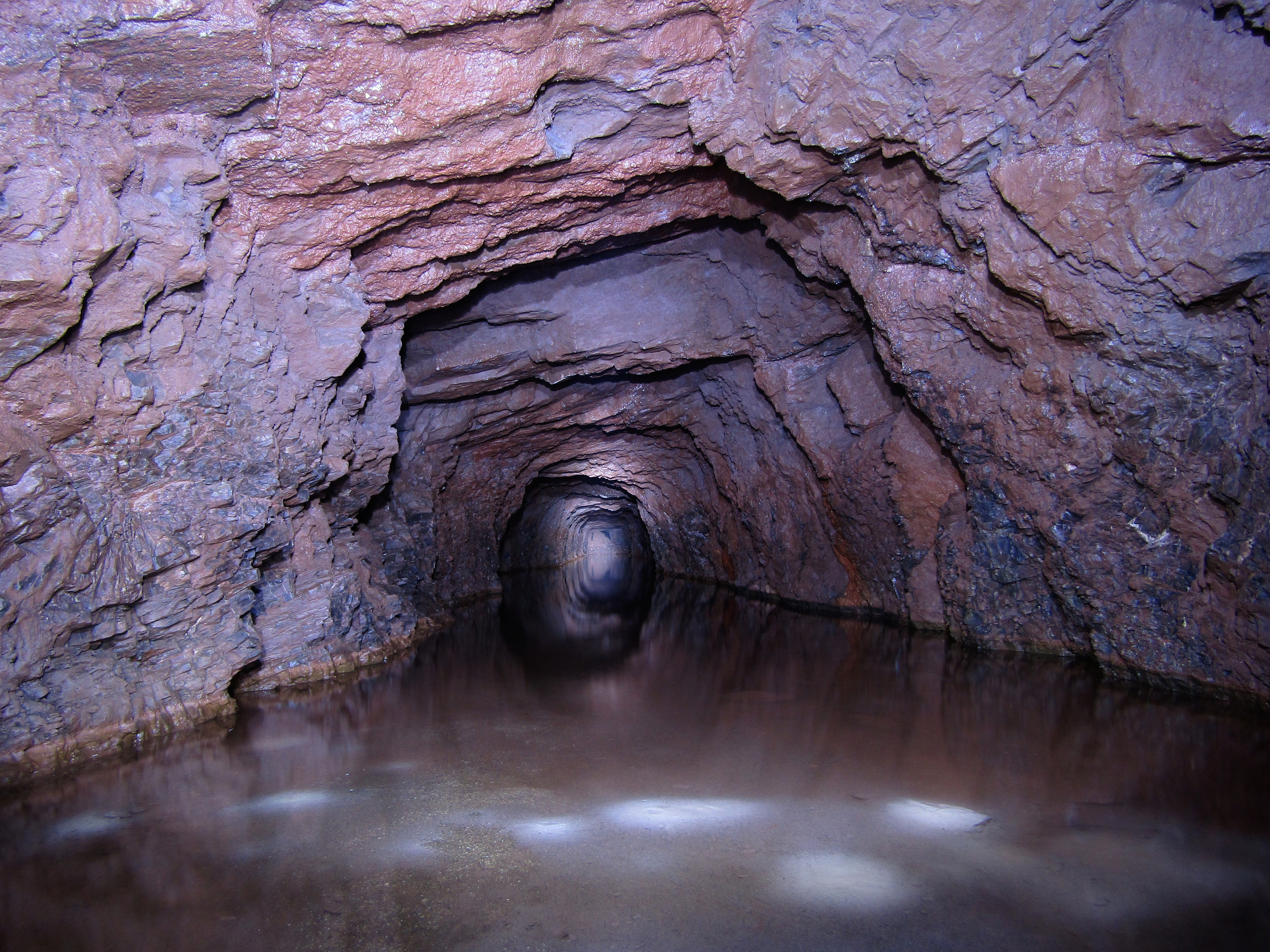 A view of the inside of a partially flooded adit of the Sharkham Point Iron Mine near the town of Brixham, Devon. Visible in the background is a partial collapse of a wooden support structure holding back rubble, the latter seen spilling into the tunnel. The adit narrows and continues past this point.